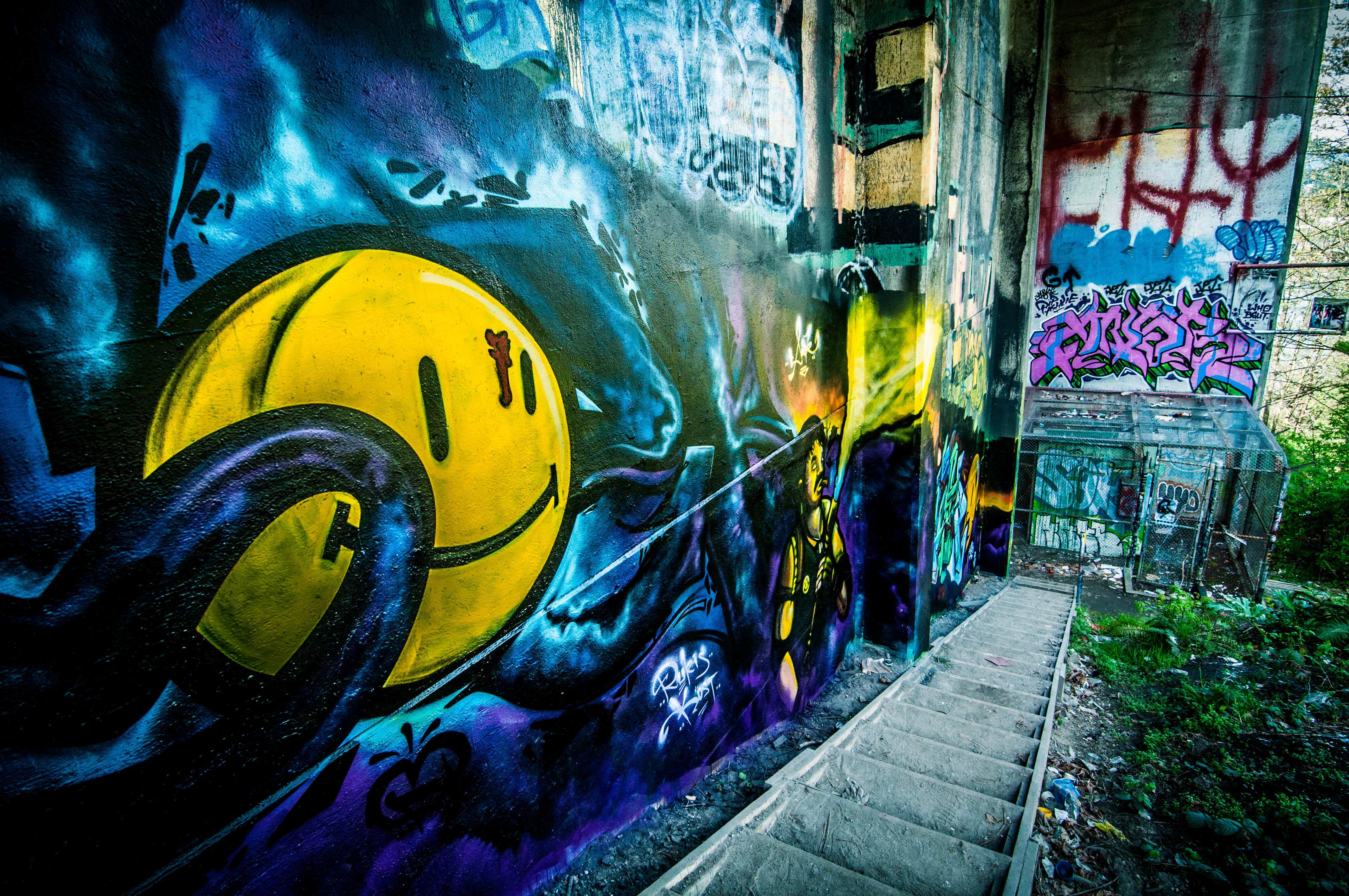 Watchmen, Second Narrows graffiti.